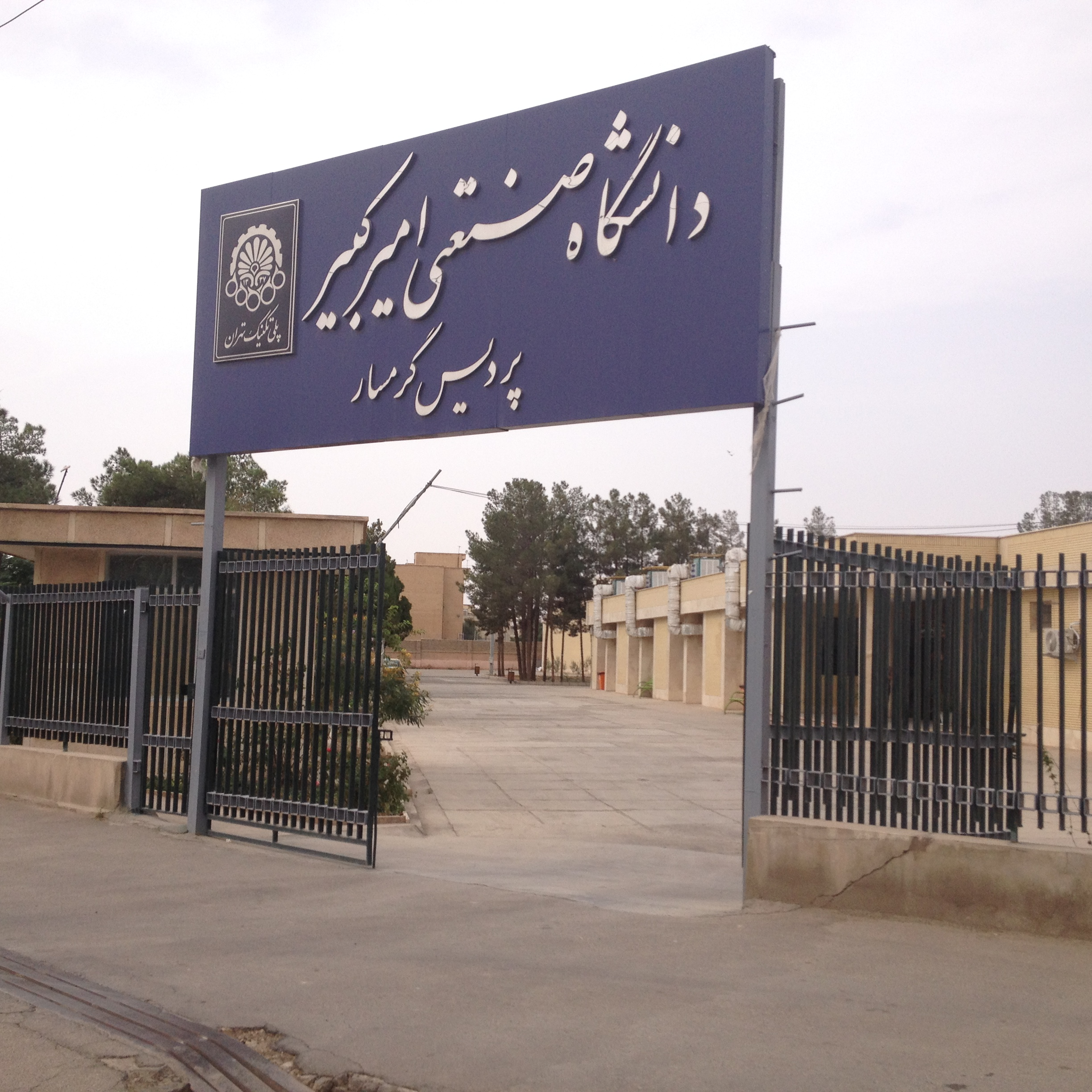 Amirkabir University of Technology (AUT) - Garmsar Branch